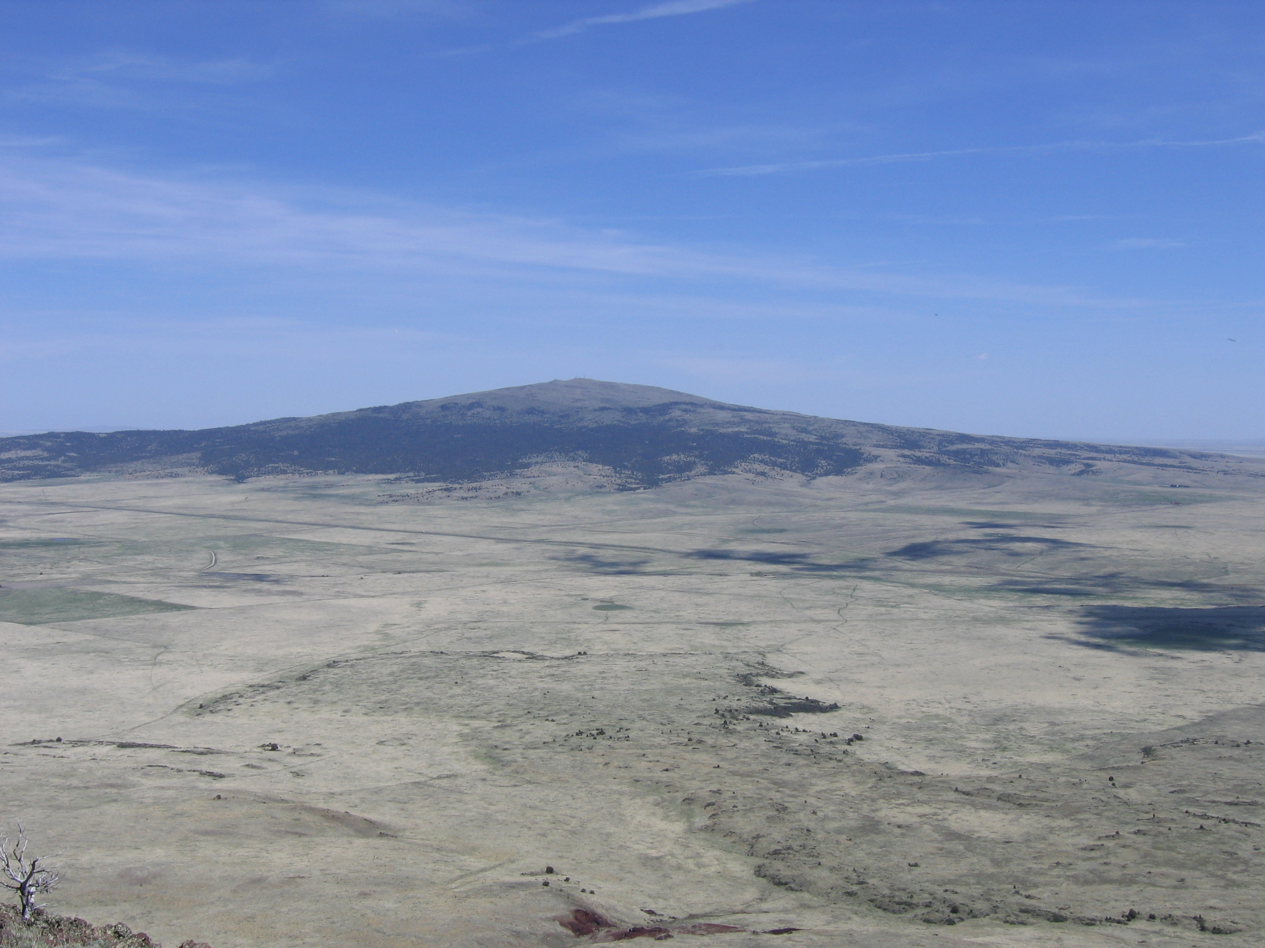 Sierra Grande, an extinct shield volcano in northeast New Mexico as seen from the rim of Capulin Volcano National Monument. Photo taken by myself, Phillip M. Stewart